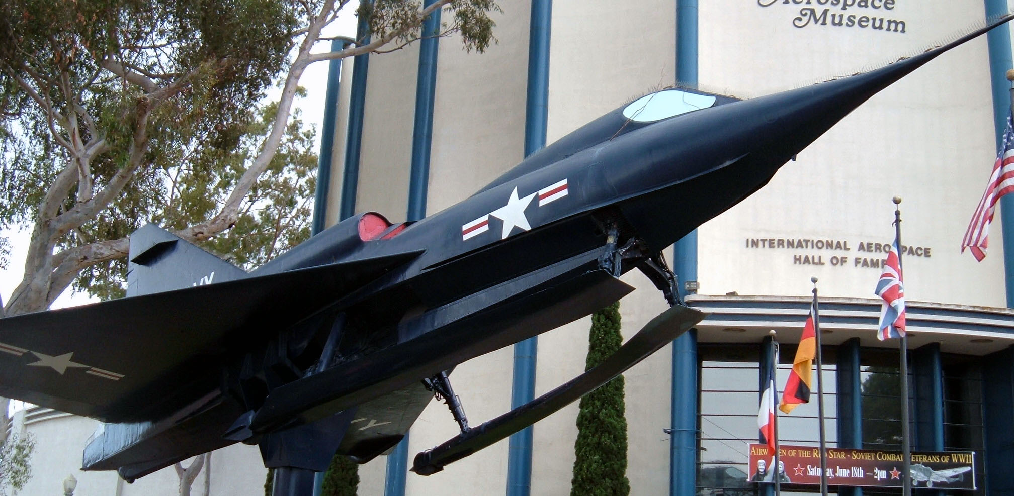 Convair F2Y Sea Dart at the San Diego Aerospace Museum The spikes along the top aren't part of the plane; they keep birds off.